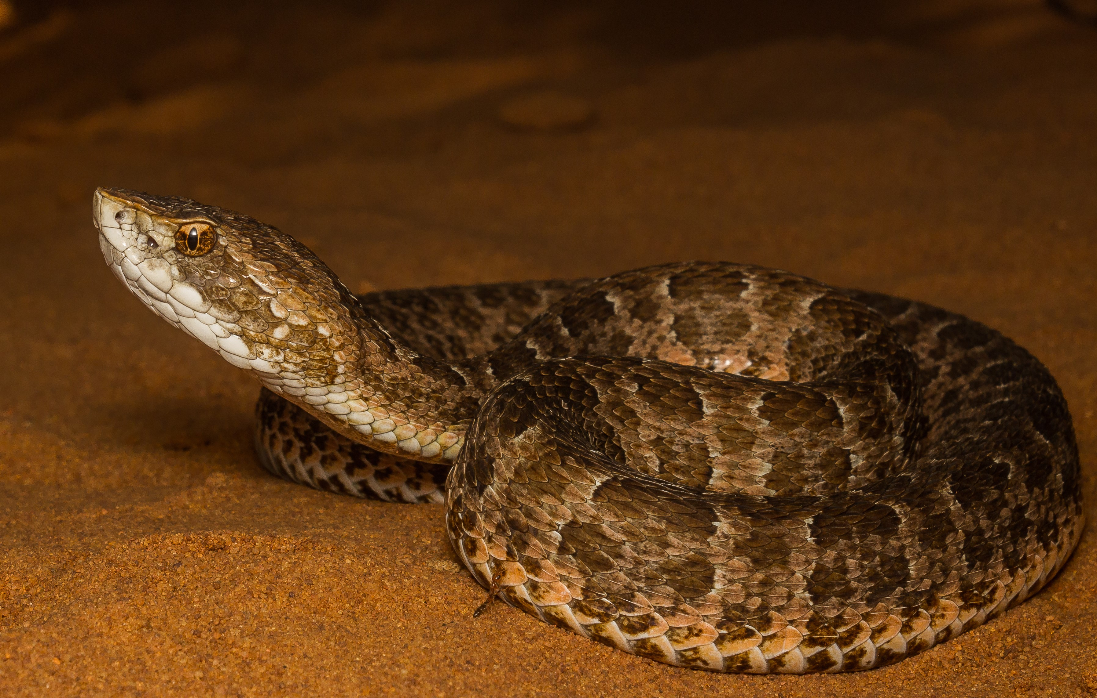 São Paulo Lancehead (Bothrops itapetiningaea).